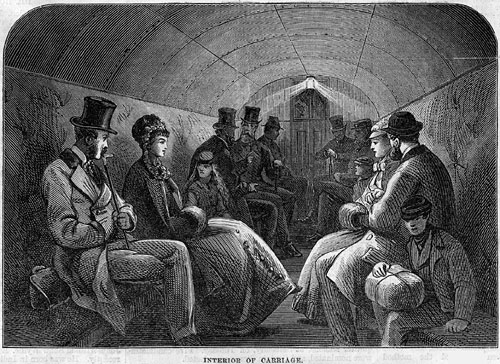 Interior of the Tower Subway carriage.